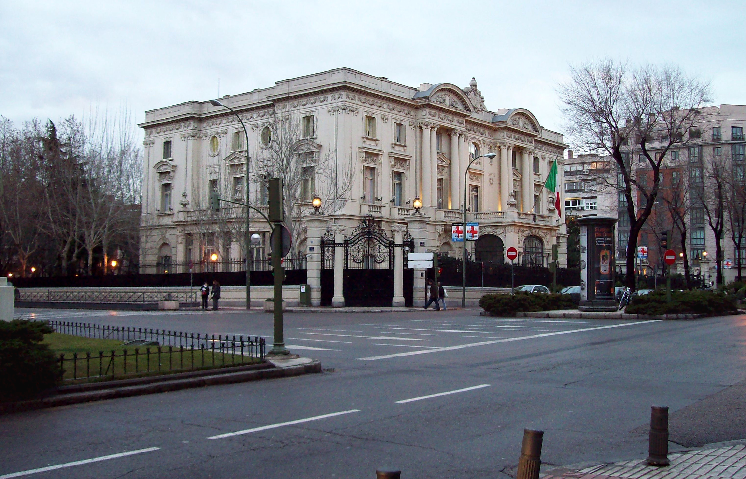 View, from the north-east angle, of the Italian Embassy seat in Madrid (Spain), also known as Palacio de Amboage.